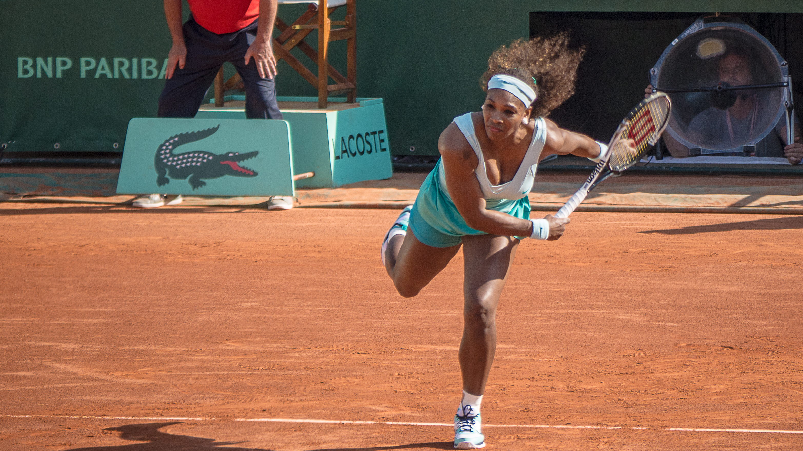 1er tour Roland Garros 2012 : Virginie Razzano (FRA) def. Serena Williams (USA)